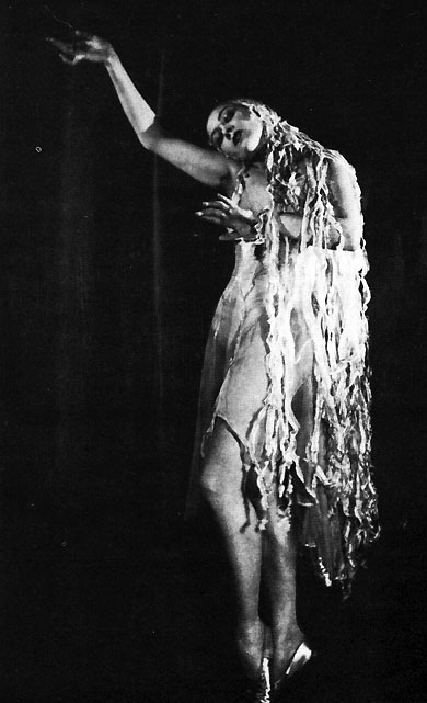 Carina Ari in the ballet Månstrålen